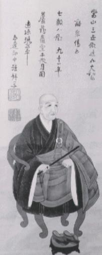 Zen Master Tettsu Gikai